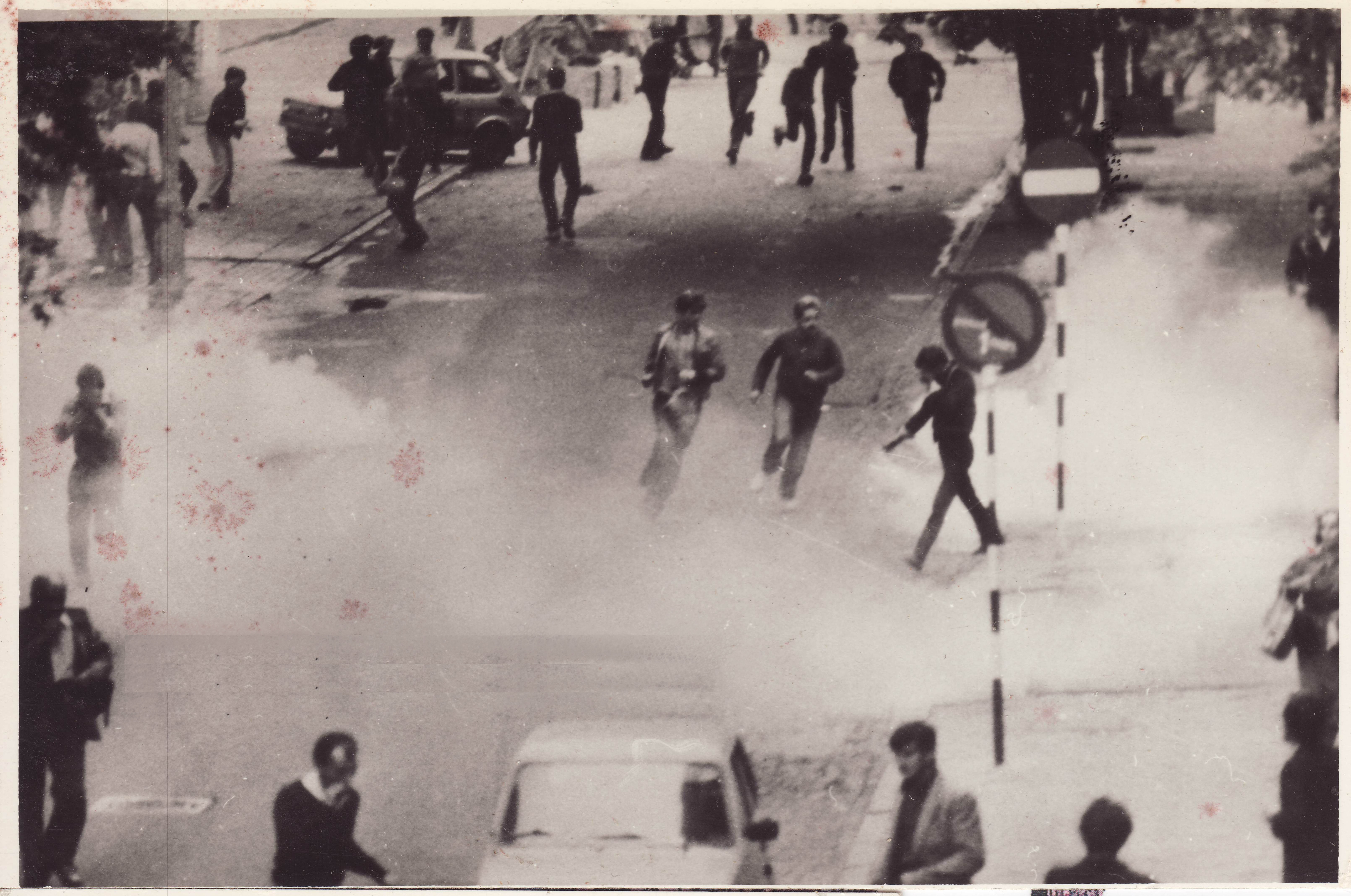 Set of photographs mostly documenting street demonstrations and police actions in Poland during the martial law of 1981-1983.